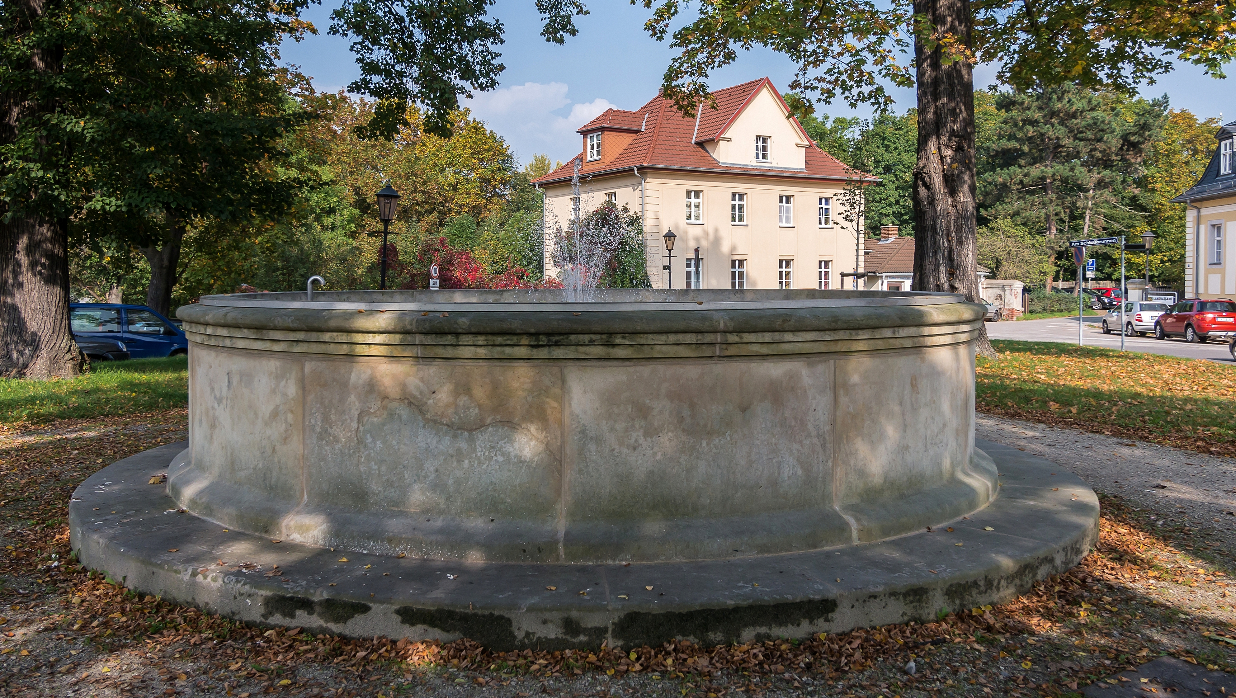 Saalfeld Am Schloßbrunnen Schlossbrunnen Bestandteil Sachgesamtheit "Schloss Saalfeld und Park"